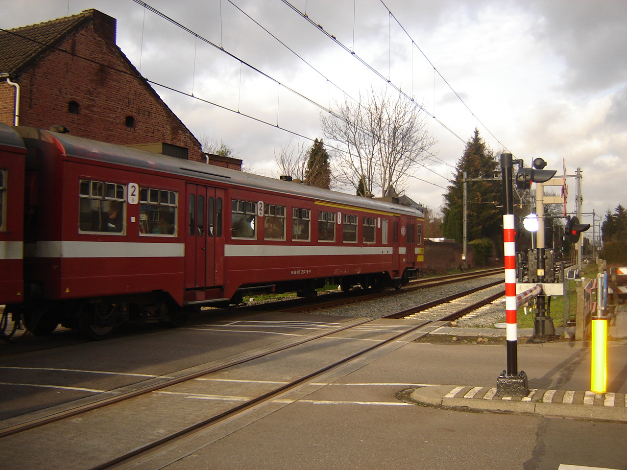 Vertrekkende trein bij station Eijsden, vlak na de heringebruikname van het station (2012).